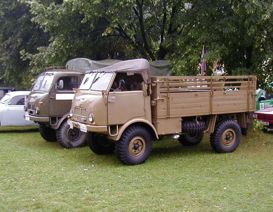 Tatra 805 - Paratroopers car and lorry Photo: Ondrej Ertl (2001), Bečva, Czech Republic